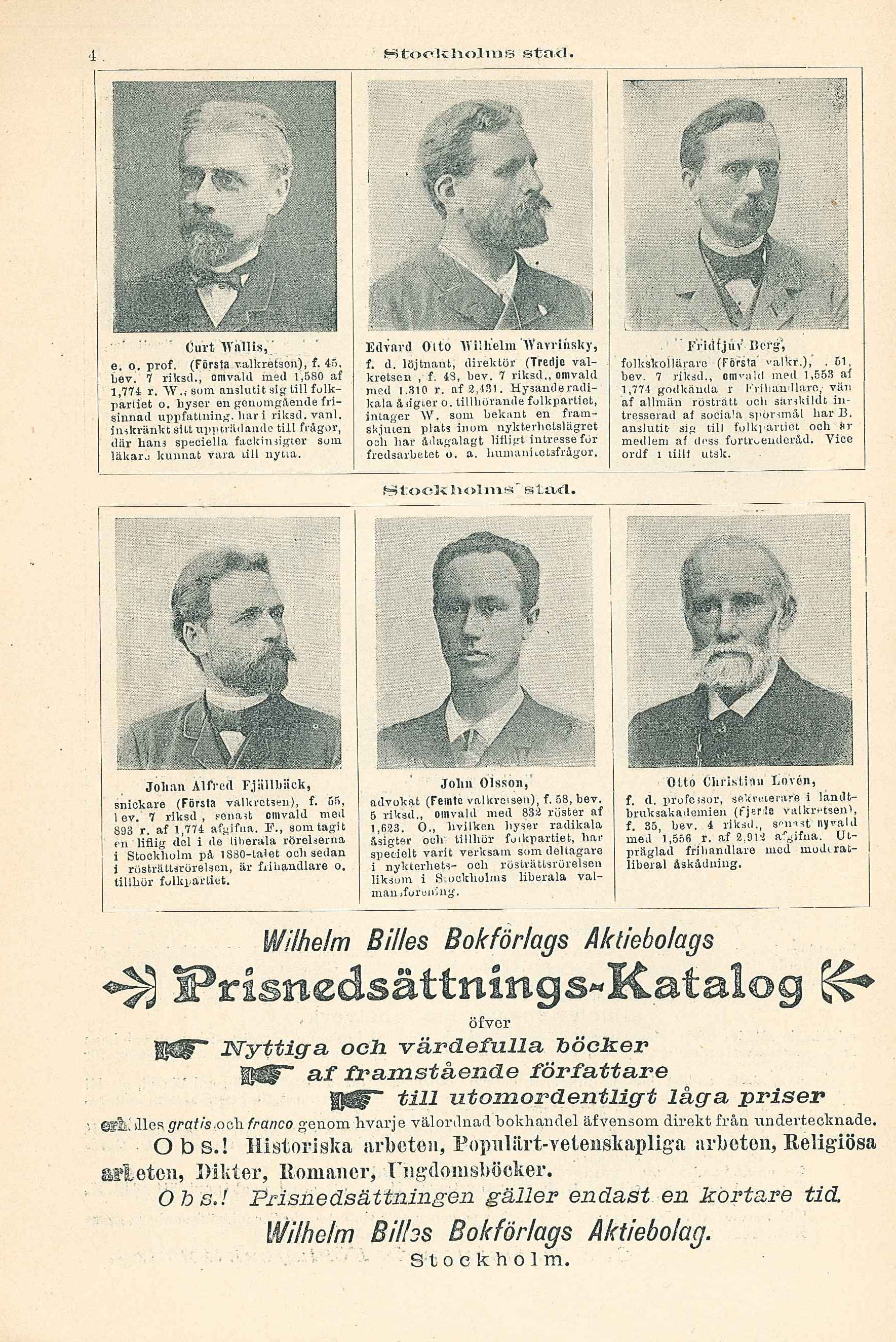 Page 4 of an album featuring portraits of all the members of the second chamber of the Swedish parliament (Sveriges riksdag) elected in 1897. This page featuring parts of the members representing the city of Stockholm.